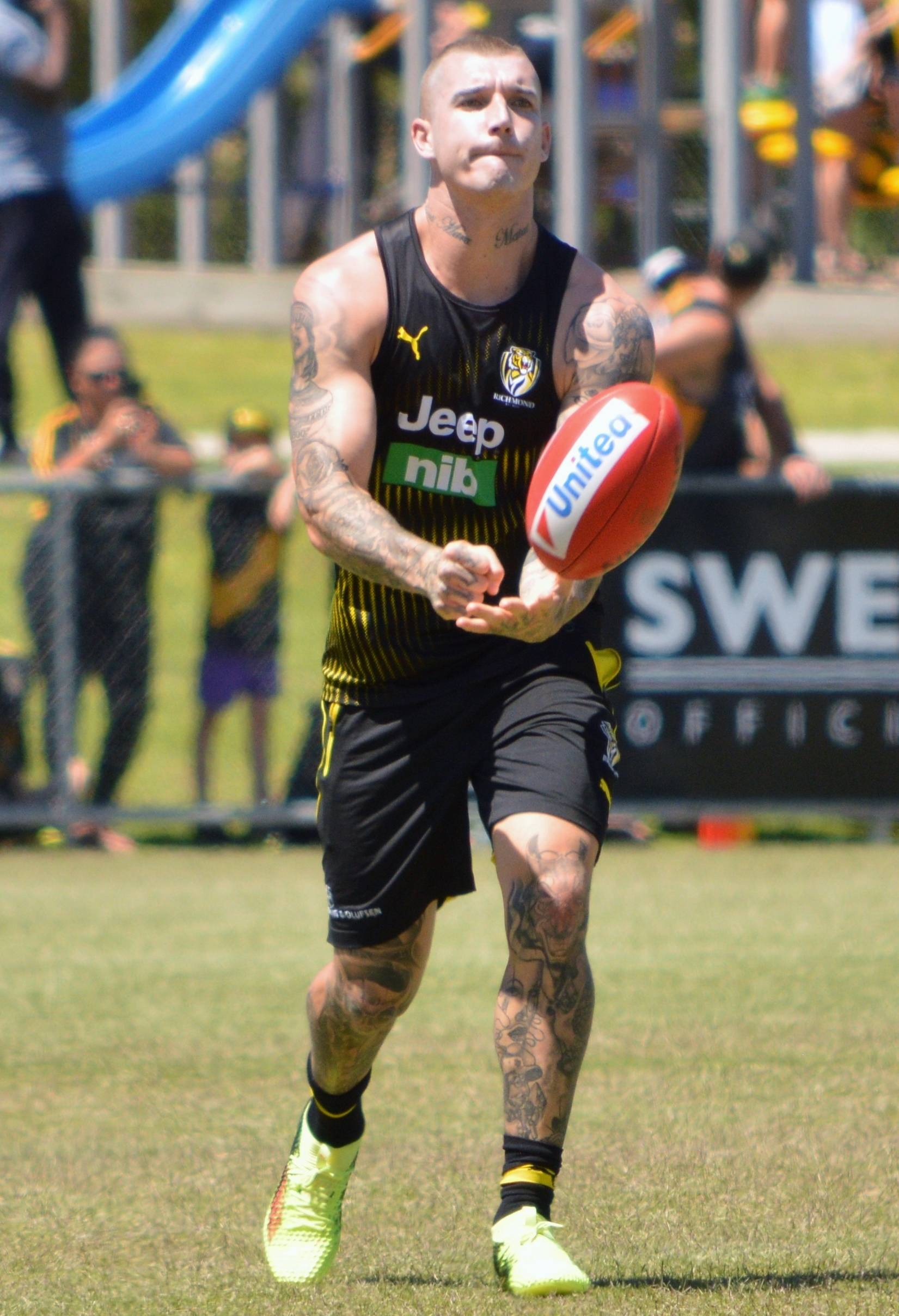 Dustin Martin at Richmond's Family Day in January 2018